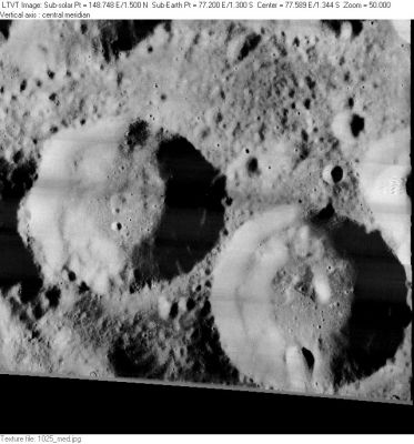 Van Vleck is in the lower right. To its northwest is 33-km Weierstrass.